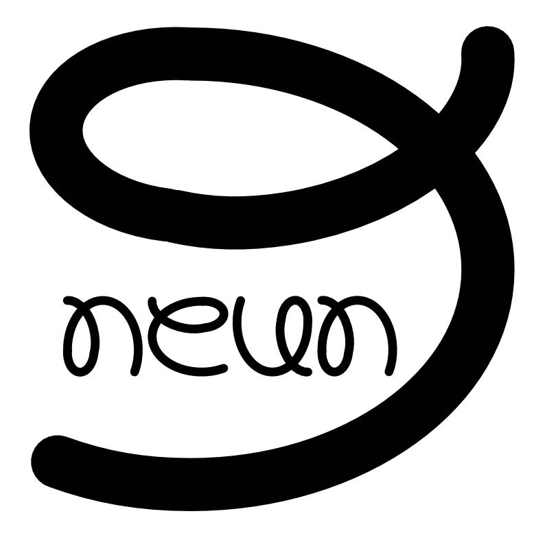 A spinonym of the German word "neun" (engl.: "nine").